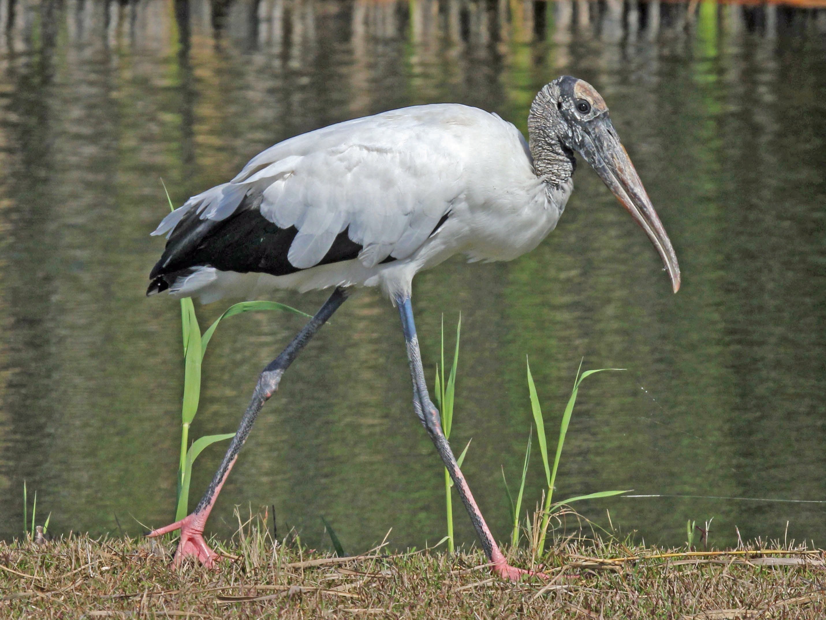 Wood Stork at Everglades National Park in Florida